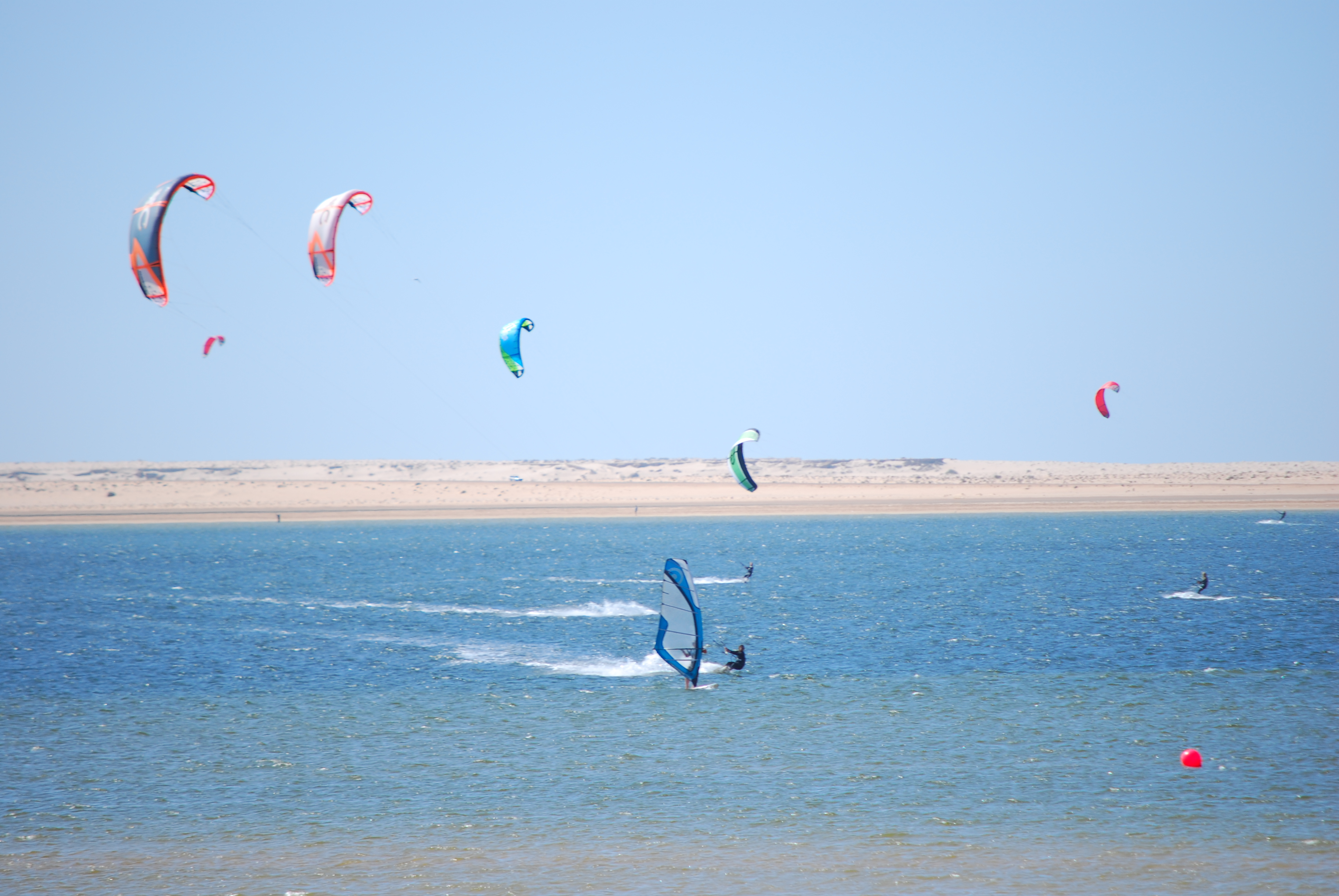 Kitesurf at Dakhla